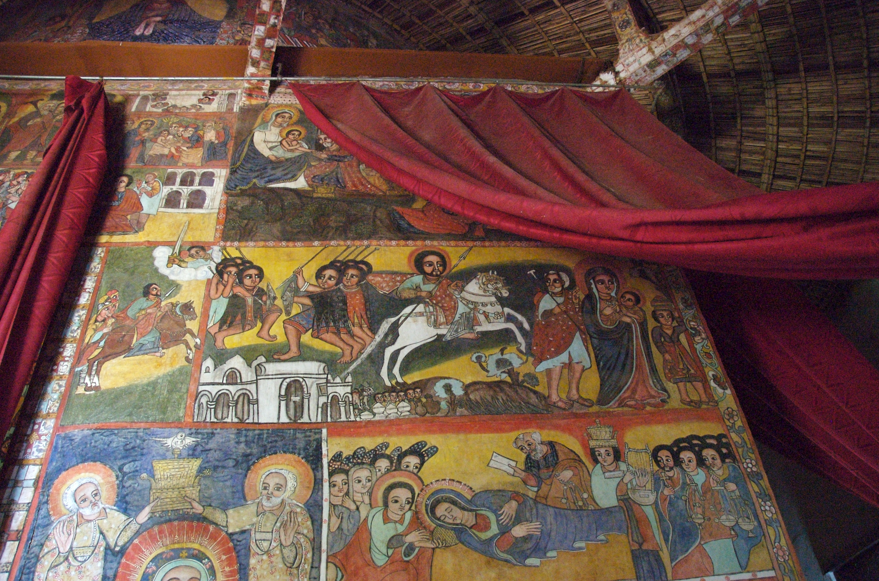 Church of Narga Selassie, Dek Island, Lake Tana, Ethiopia. Late 18th century.